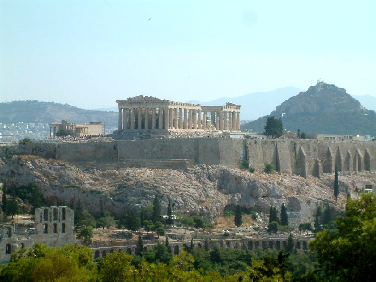 The Acropolis of Athens, Greece. View from Filopapou Hill. Photo taken in 2006.